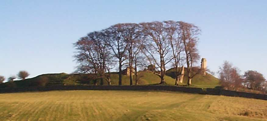 Glenn Smart (glennsmart(at) ) Use the images for whatever you want. That's how the Internet should be - free and for sharing